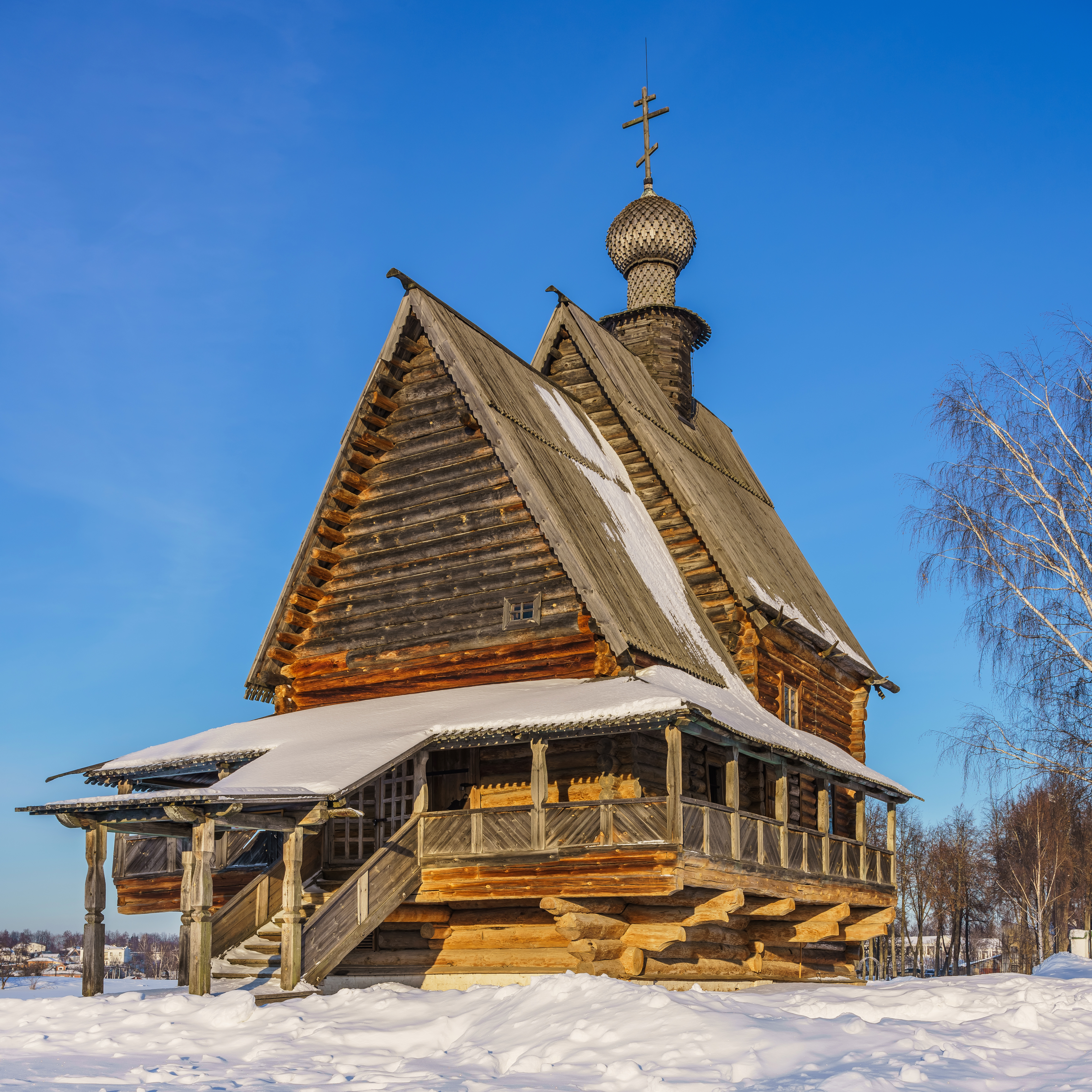 Relocated wooden St. Nicholas Church in the Kremlin in Suzdal, Russia